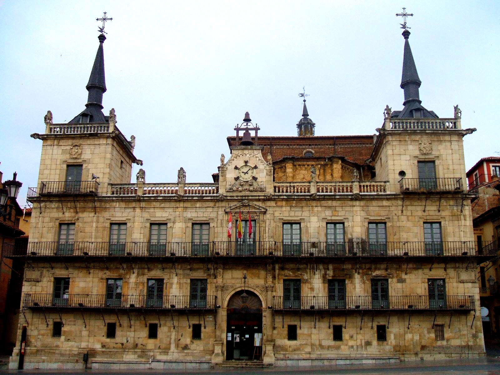 Edificio municipal de la Plaza Mayor de León para presidir diversos actos que tenían lugar desde su construcción en el siglo XVII (España)